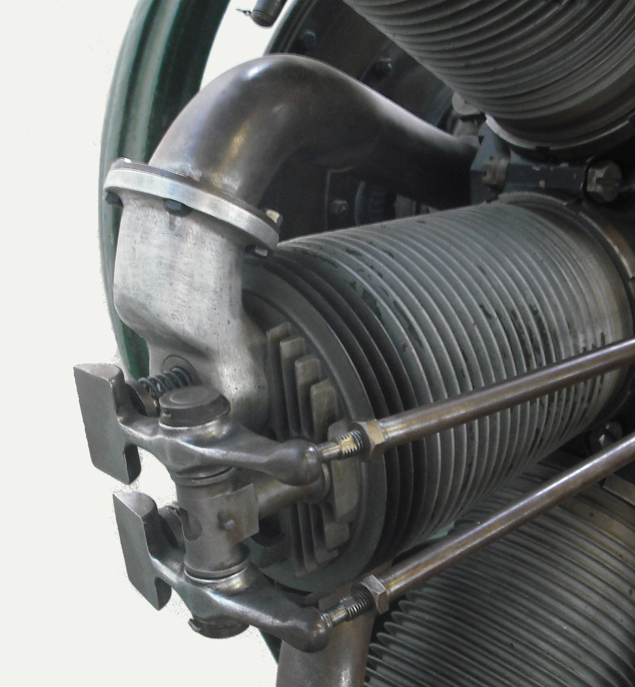 Clerget 9J rotary engine Museum of Lincolnshire Life